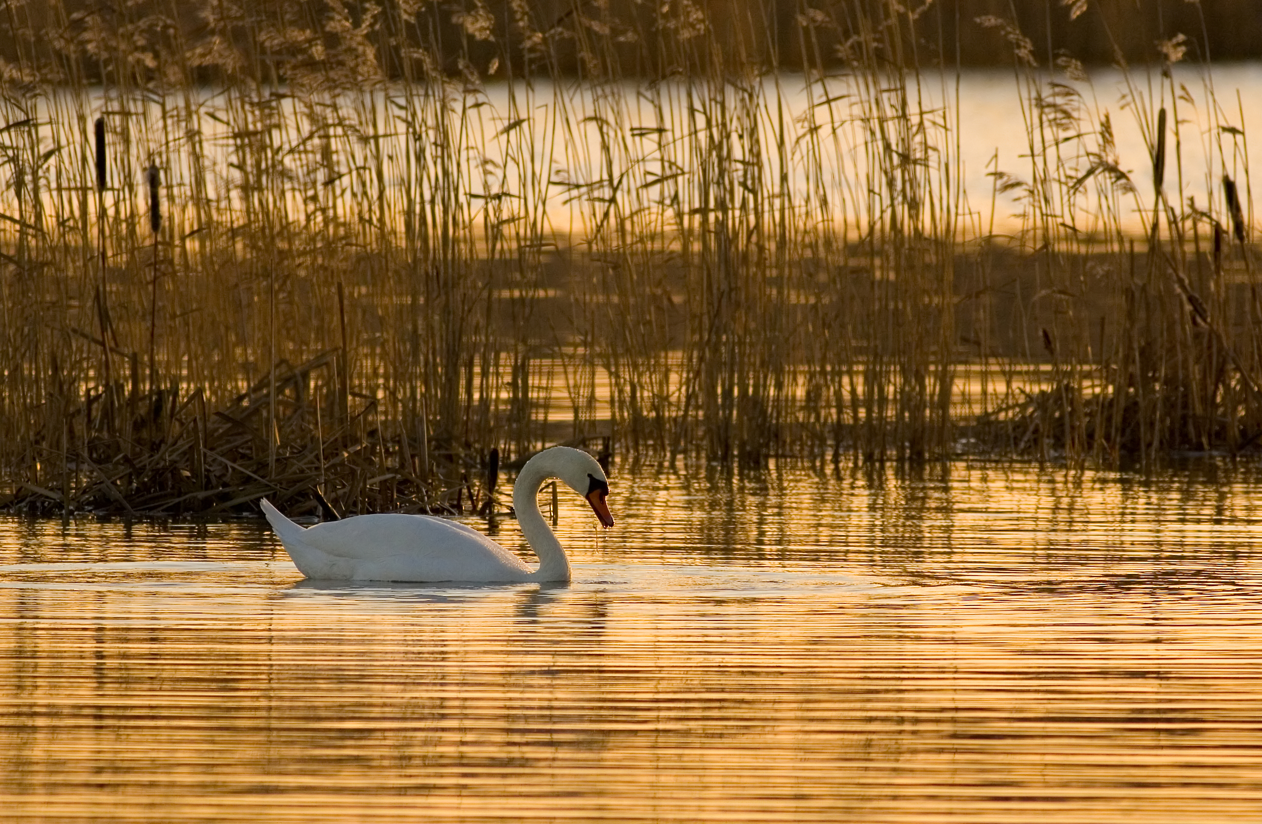 Mute Swan (Cygnus olor) in natural habitat at the time of sunrise. Photo taken near Vanhankaupunginlahti, Helsinki, Finland. The location is listed in Ramsar "List of Wetlands of International Importance". Geographic location (N):23472 (E):52457.